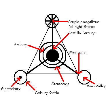 Map of the Barbury Castle's Crop Circle. This image has been made in Paint.